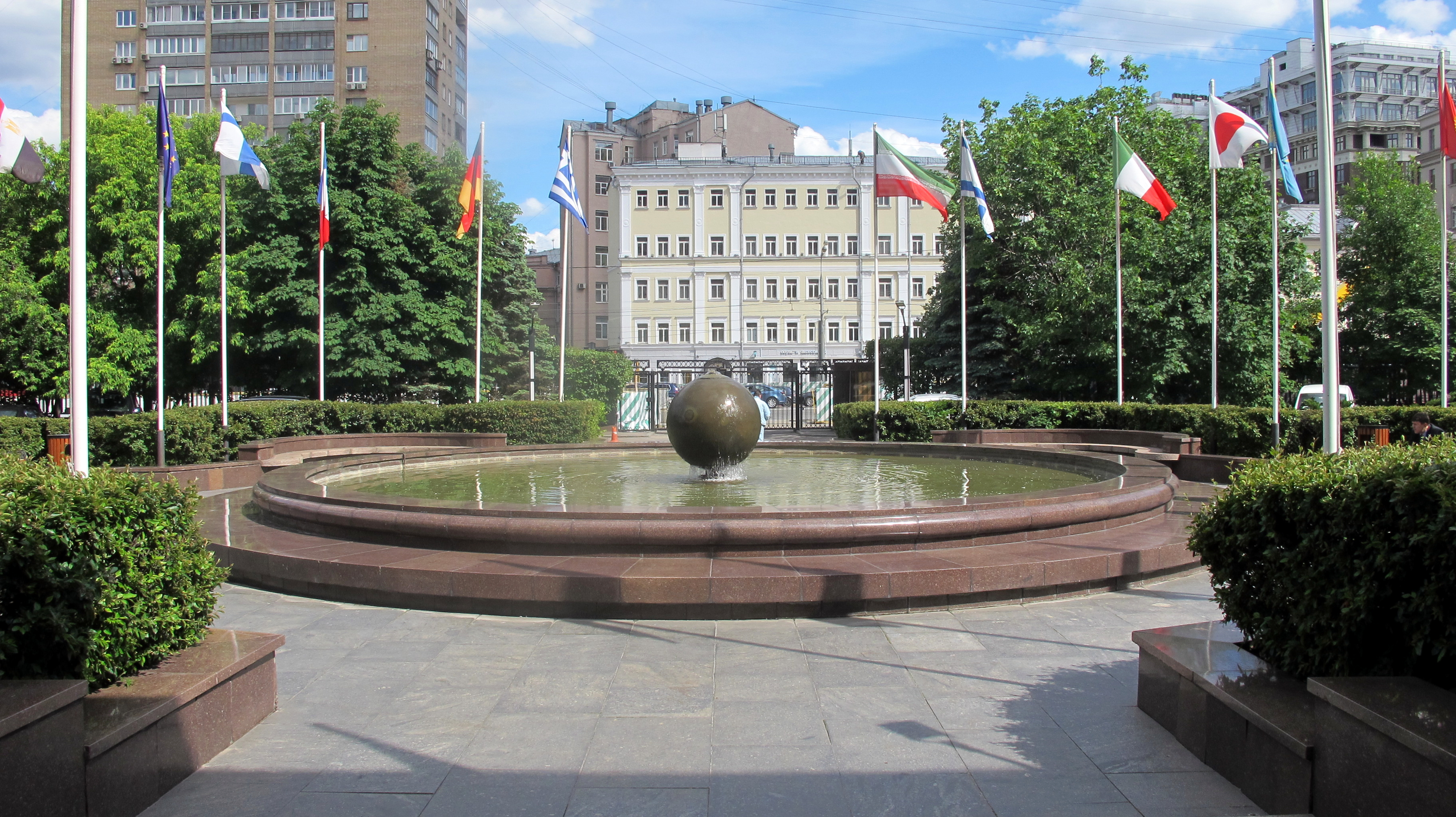 Norilsk Nickel’s Annual General Meeting of Shareholders 2016-06-10